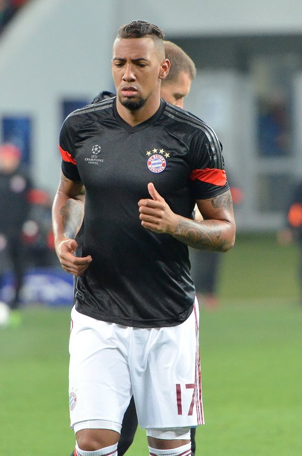 Jerome Boateng in match vs Shahtar, 2015 year